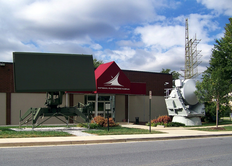 Front door to National Electronics Museum